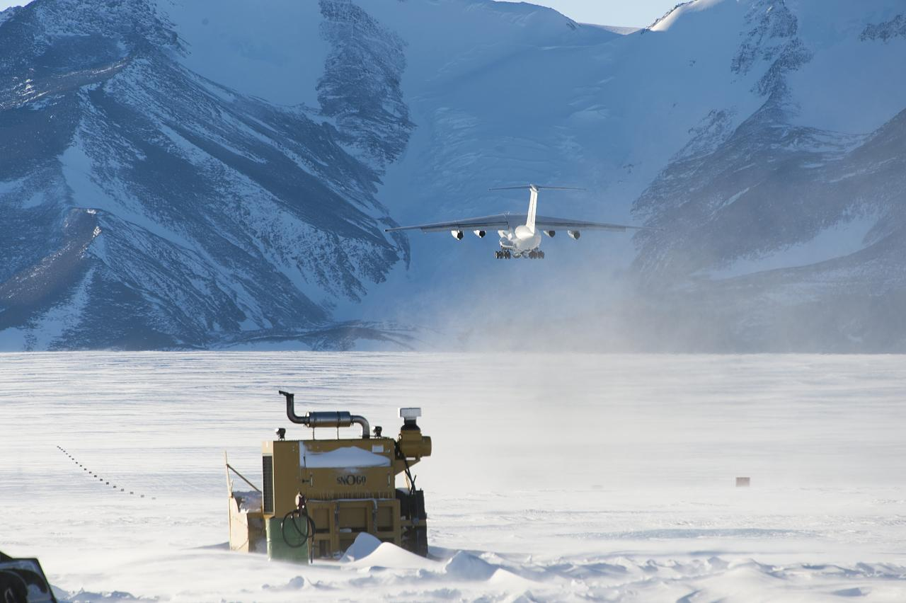 Ilyushin Il-76 of Air Almaty taking off from the Union Glacier Blue-Ice Runway in Antarctica